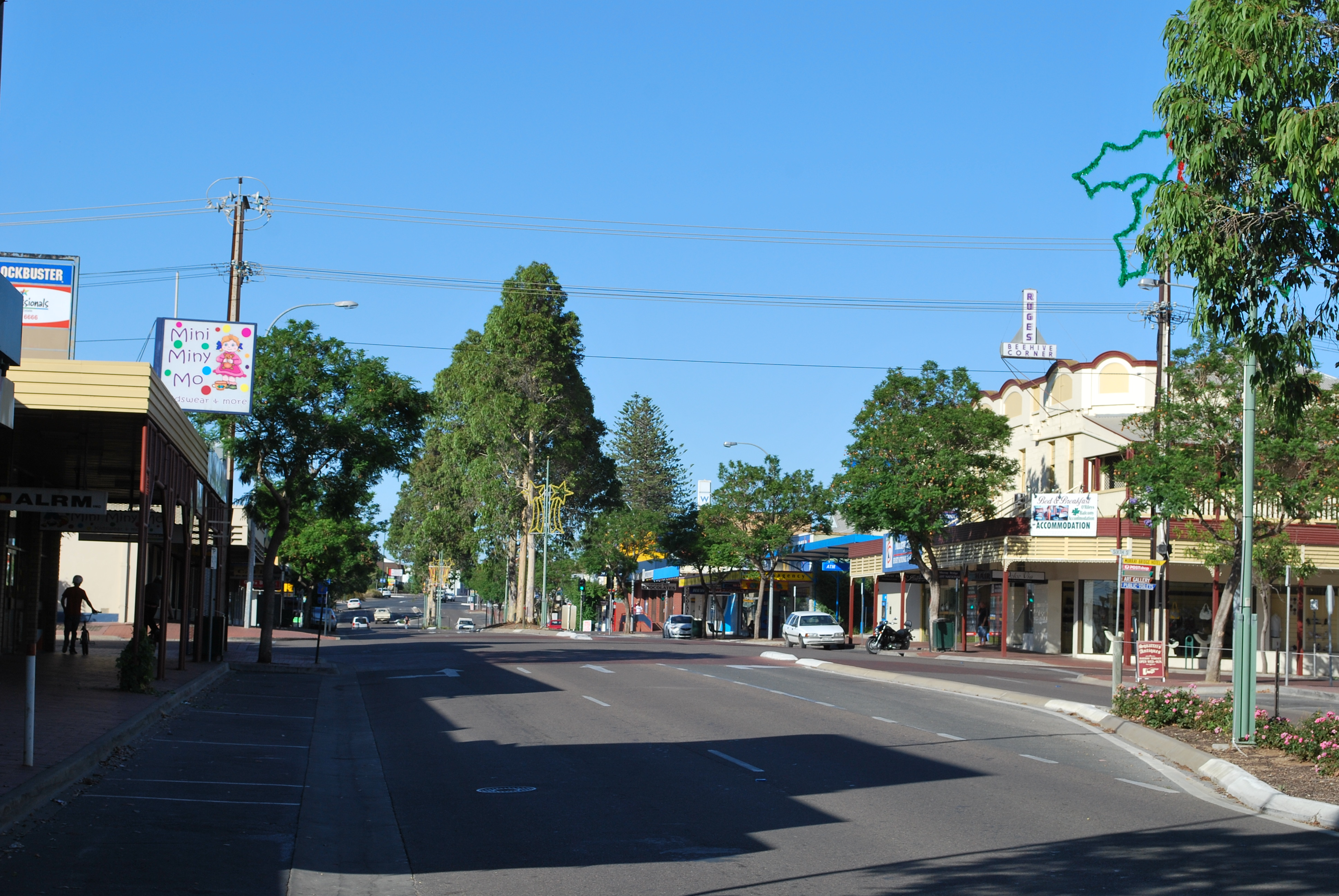 Main street of Murray Bridge, South Australia